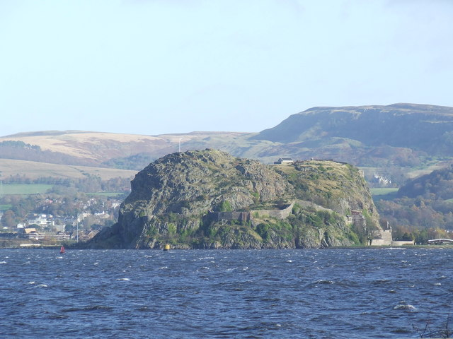 Dumbarton Rock Viewed from Main Road, Langbank on the south bank of the Clyde. The River Leven enters the Clyde to the left of the rock. The Kilpatrick Hills can be seen beyond.